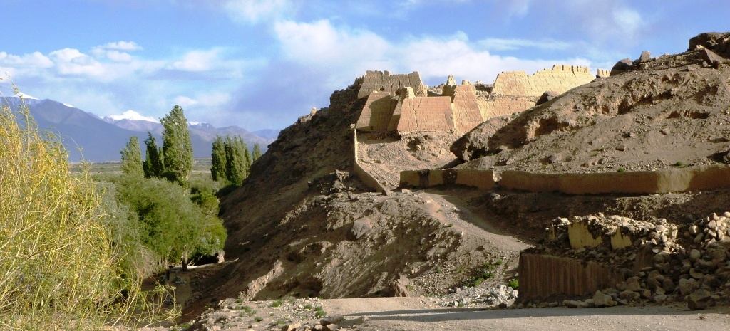 I took this photo myself on a trip to Tashkurgan from Kashgar